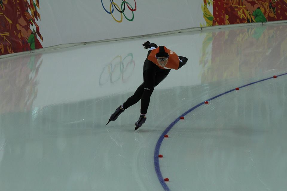 Women's 3000m, 2014 Winter Olympics, Annouk van der Weijden